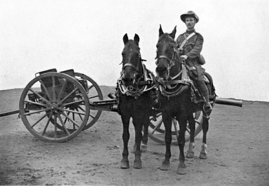 Robert Erskine Childers as a volunteer in the Honourable Artillery Company, c1900